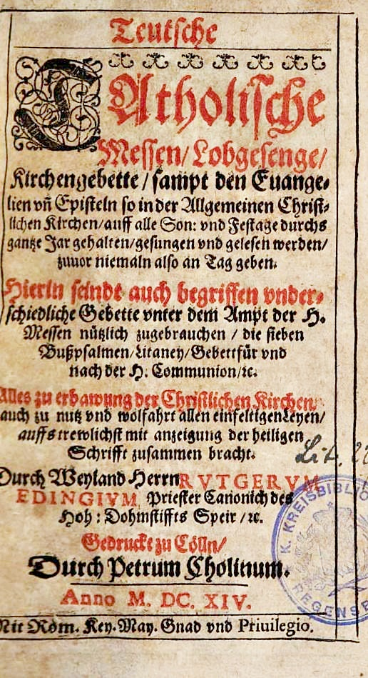 Rutger Edinger Buch-Titelblatt 1614